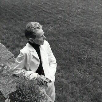 Picture of Susan Howe